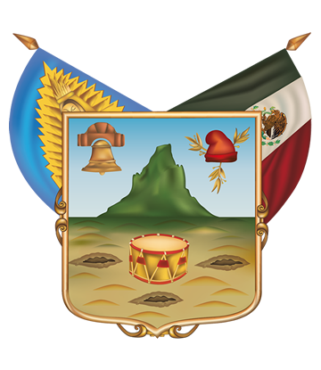 Seal of the Free and Sovereign State of Hidalgo